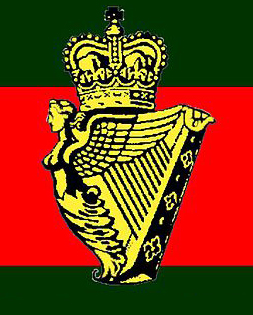 A representation of the Ulster Defence Regiment Insignia